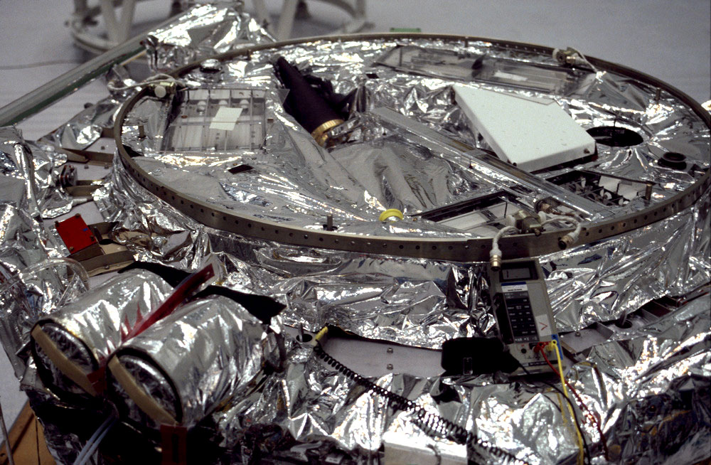 The Viking satellite is covered with thermal blankets for insulation.